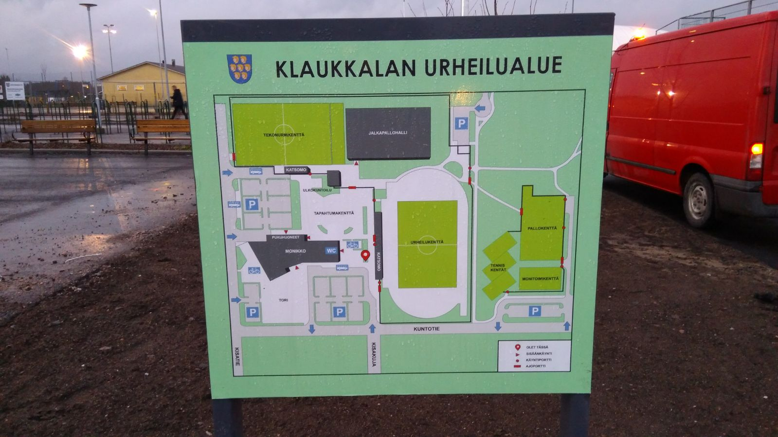 A map of Klaukkala sports area.